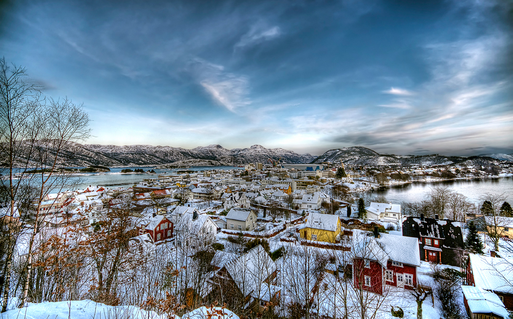 HDR-Iamge of Florø in winter